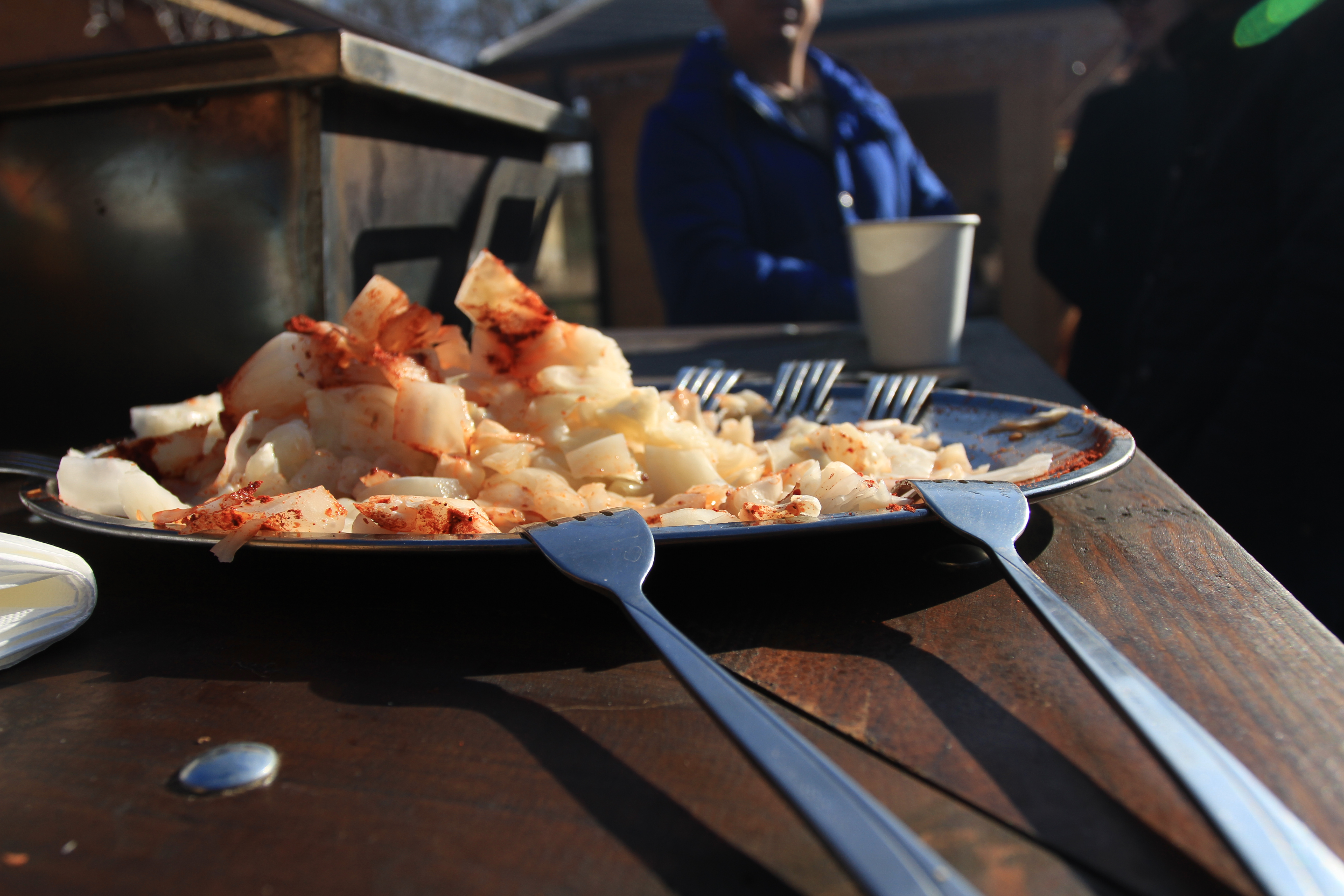 Sauerkraut served during the Christmas Bazaar in Bulgaria. This photo has been taken in the country: Bulgaria